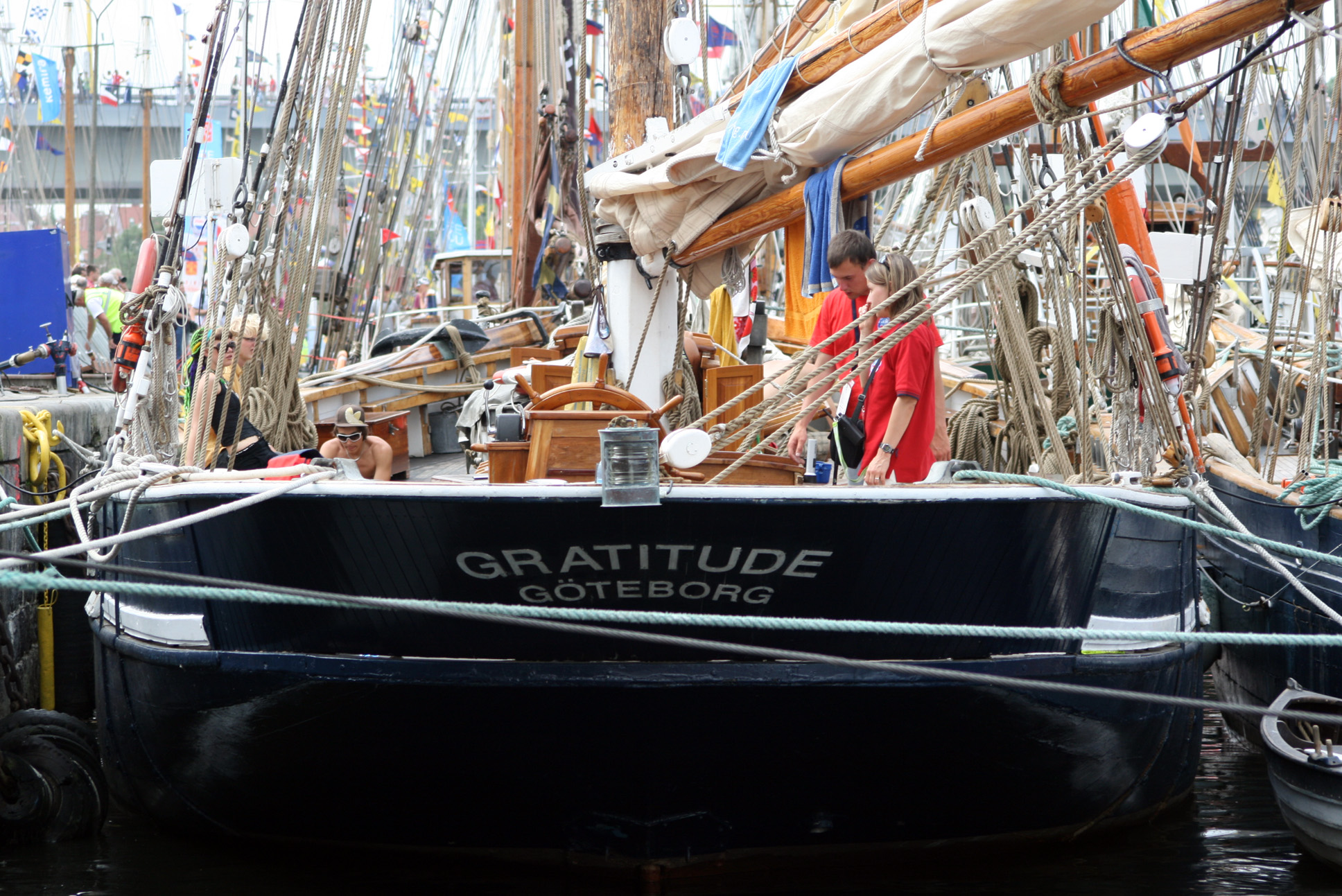 Gratitude , The Tall Ships' Races, Szczecin 2007